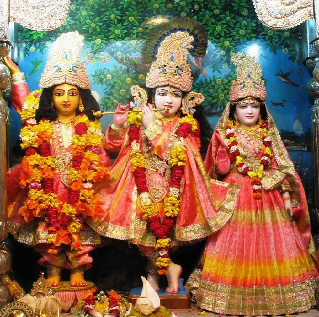 Deidades de la Keshavaji Gaudiya Math, Mathura.